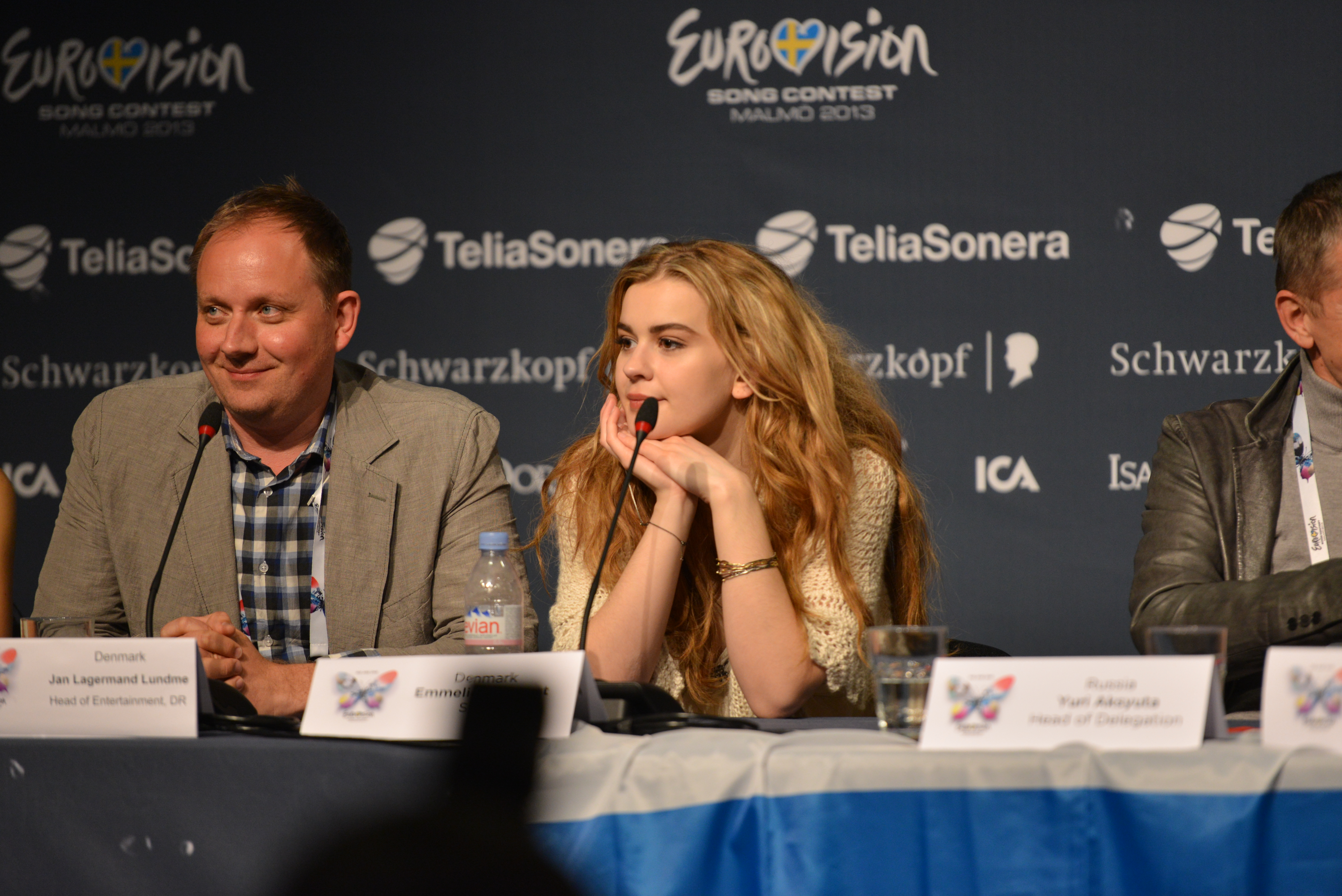 Emmelie de Forest at a press conference during the Eurovision Song Contest 2013 in Malmö. (Help translate this text)